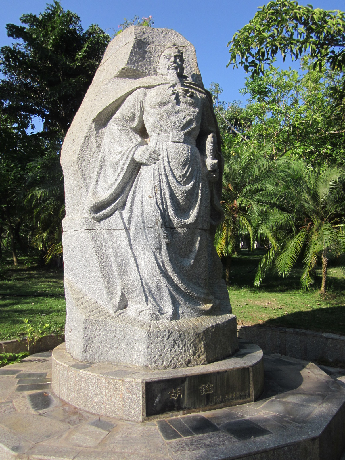 Tianya Haijiao